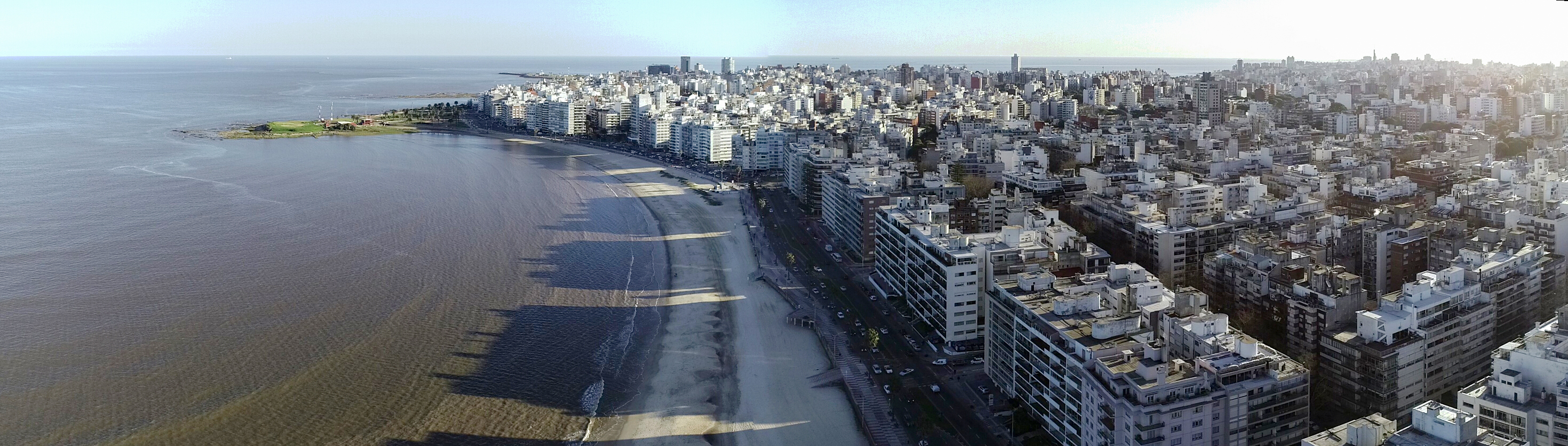 Panorama of the Pocitos Beach, Montevideo, Uruguay